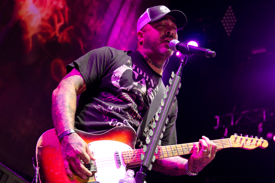 " and link the text to .